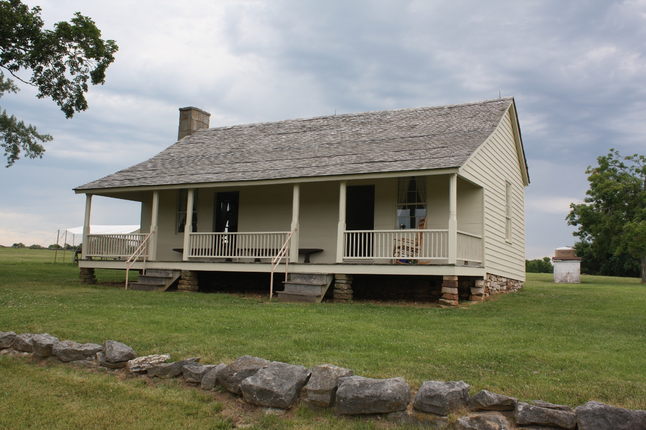 Ray House, Wilson's Creek National Battlefield, Springfield, MO